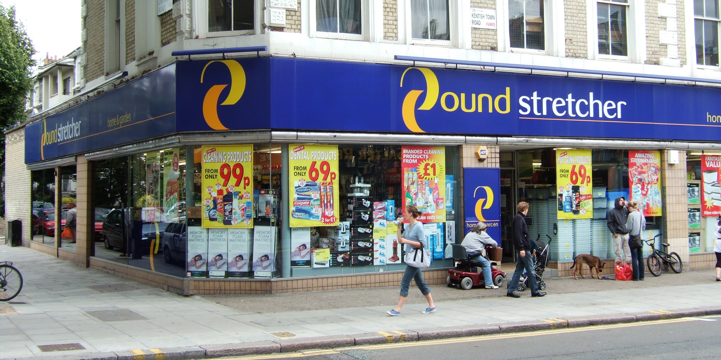 Poundstretcher